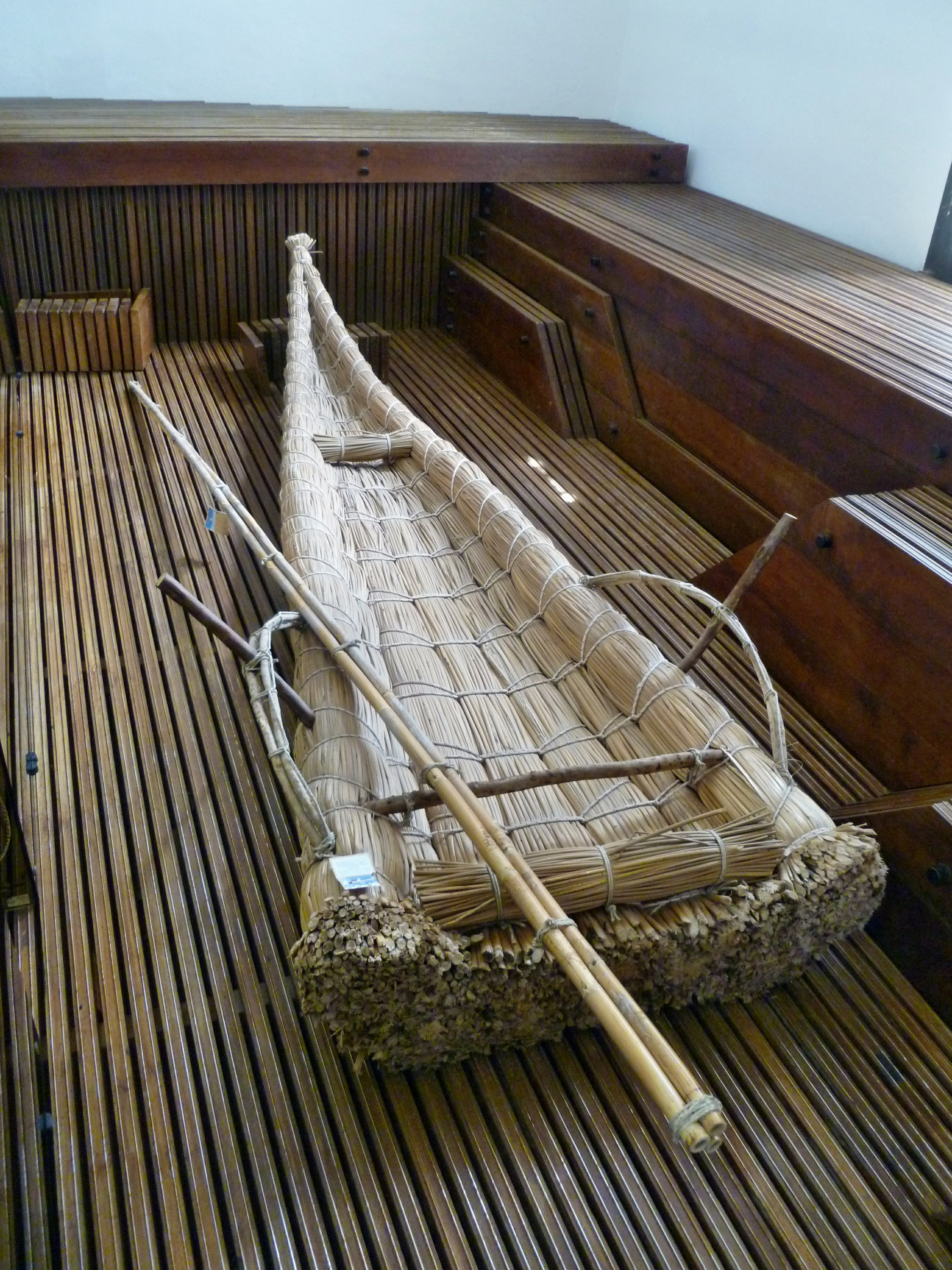 Reed boat; exhibition in the Doria castle of Castelsardo, Sardinia, Italy